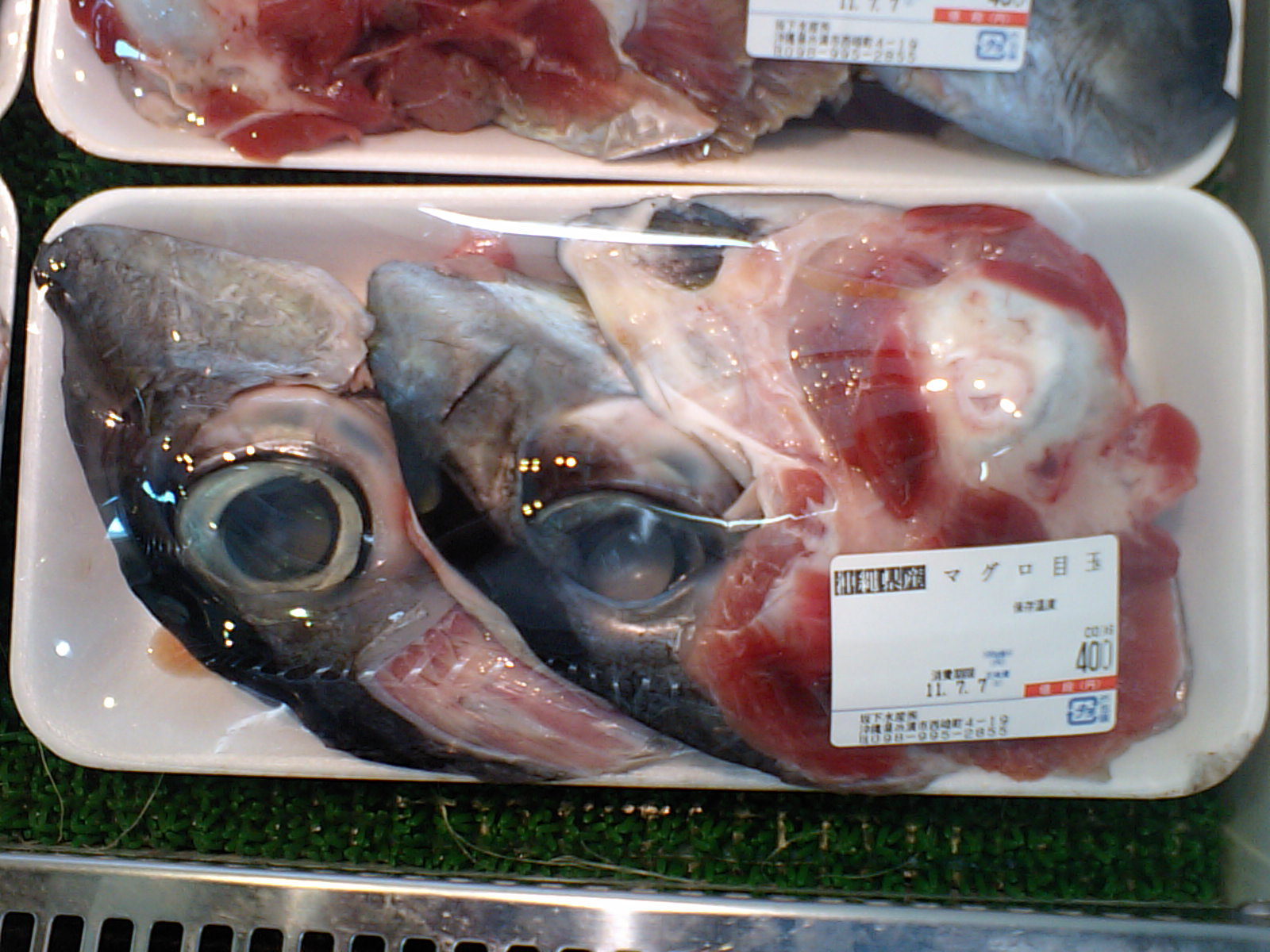 tuna's eye in okinawa itoman fish center